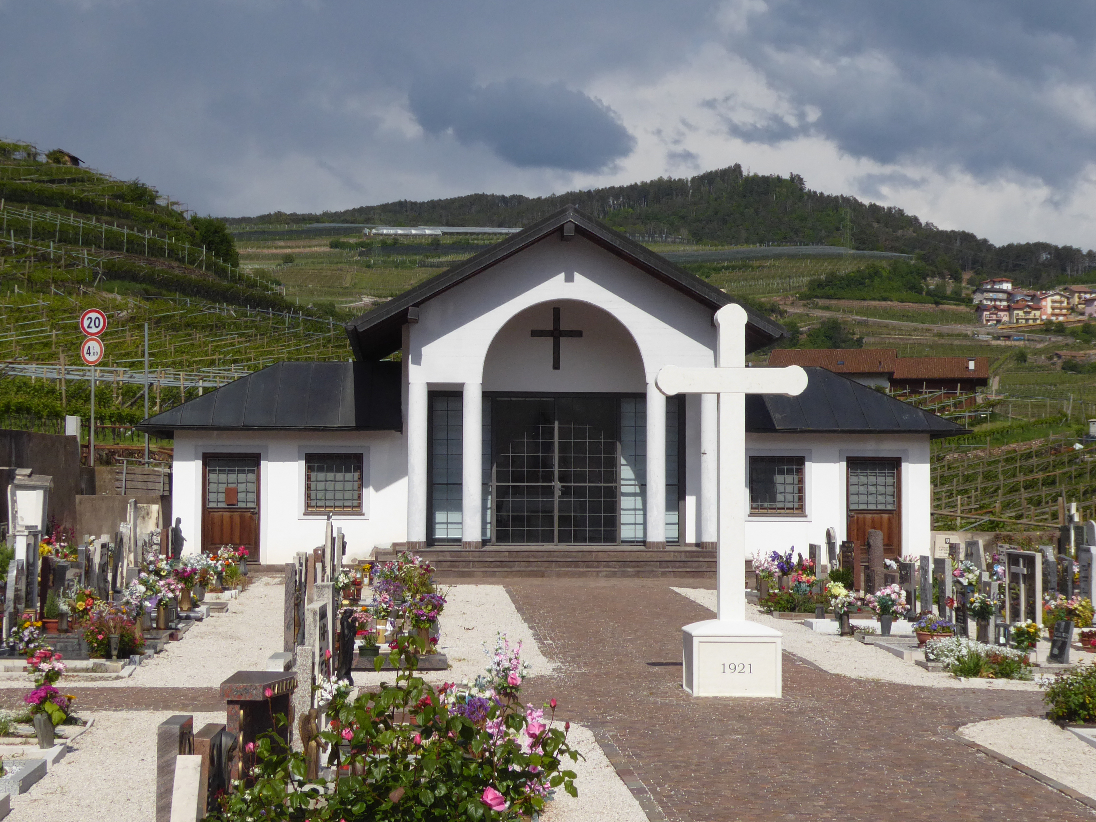 Palù di Giovo (Giovo, Trentino, Italy) - Cappella di Maria Regina